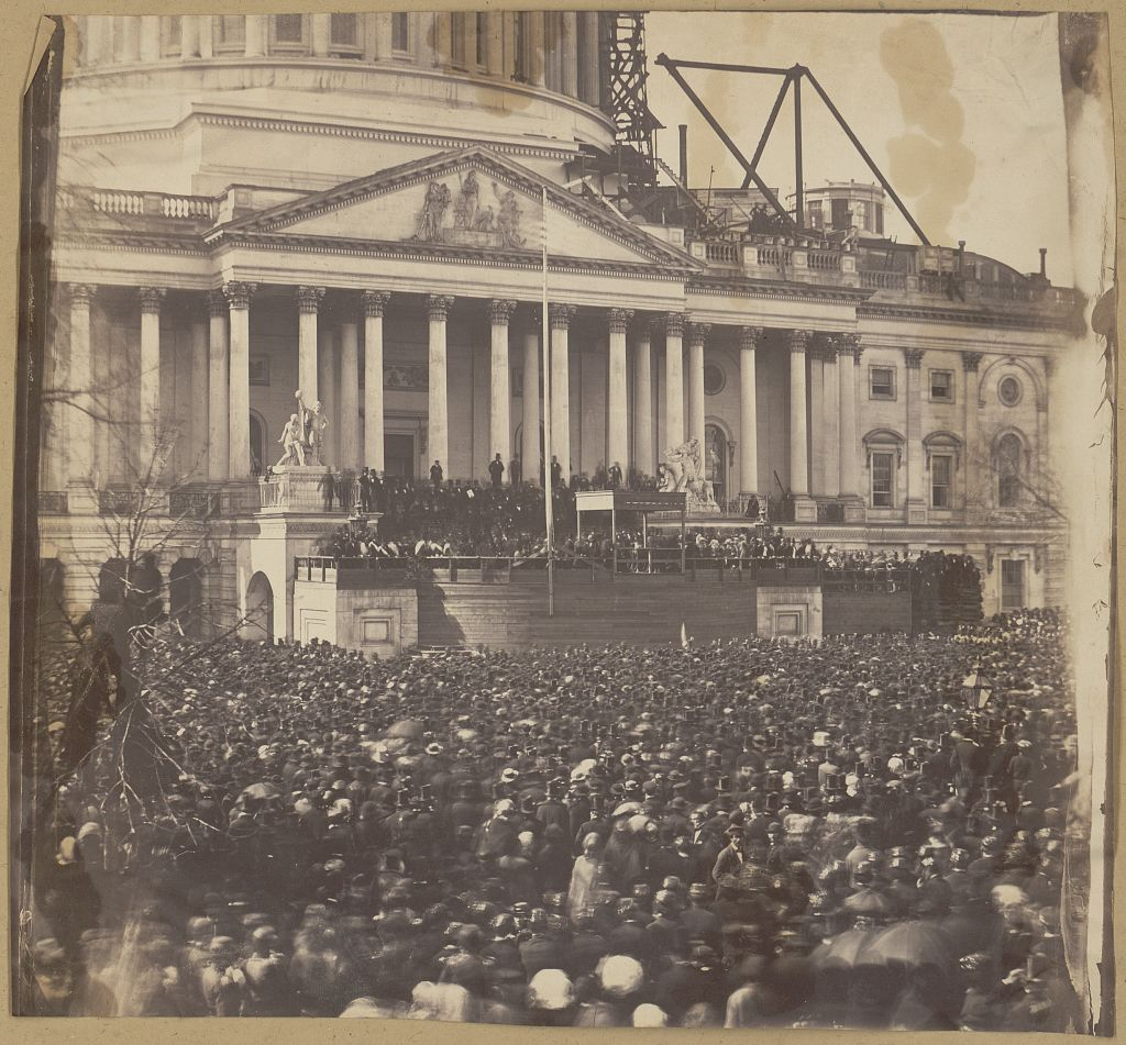 Inauguration of Mr. Lincoln, March 4, 1861 [Washington, D.C., 1861] 1 photographic print : salted paper ; 33 x 36 cm. Notes: Photograph shows participants and crowd at the first inauguration of President Abraham Lincoln, at the U.S. Capitol, Washington, D.C. Lincoln is standing under the wood canopy, at the front, midway between the left and center posts. His face is in shadow but the white shirt front is visible. (Source: Ostendorf, p. 87) "A distant photograph from a special platform by an unknown photographer, in front of the Capitol, Washington, D.C., afternoon of March 4, 1861. 'A small camera was directly in front of Mr. Lincoln,' reported a newspaper, 'another at a distance of a hundred yards, and a third of huge dimensions on the right ... The three photographers present had plenty of time to take pictures, yet only the distant views have survived." (Source: Ostendorf, p. 86-87) Published in: Lincoln's photographs: a complete album / by Lloyd Ostendorf. Dayton, OH: Rockywood Press, 1998, p. 86-87. Title from item. In album: Benjamin Brown French "Photographs," p. 59. Subjects: Lincoln, Abraham--1809-1865--Inauguration, 1861. Crowds--Washington (D.C.)--1860-1870. Presidential inaugurations--Washington (D.C.)--1860-1870. Format: Salted paper prints--1860-1870. Repository: Library of Congress, Prints and Photographs Division, Washington, D.C. 20540 USA, Persistent URL: Call Number: LOT 12251, p. 59